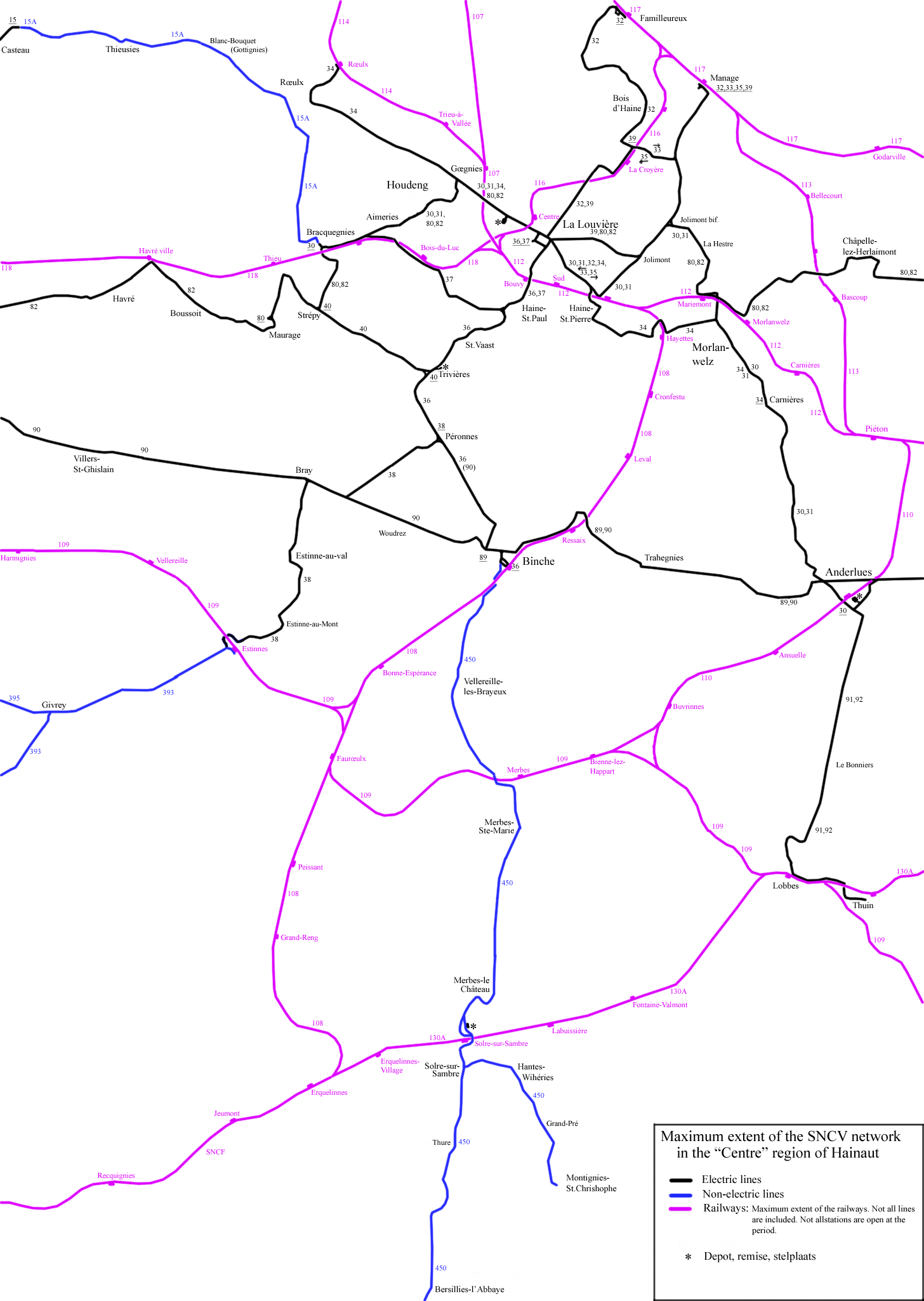 Vicinal railway SNCV network of the "Centre" regio in Hainaut province.